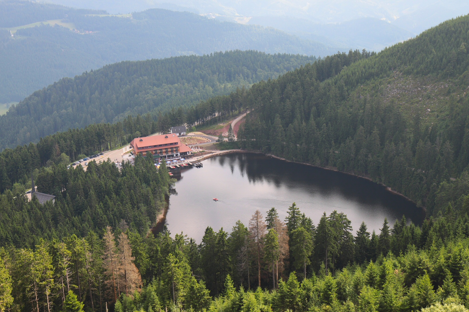 The Mummelsee near Seebach in the Black Forest, below the Hornisgrinde